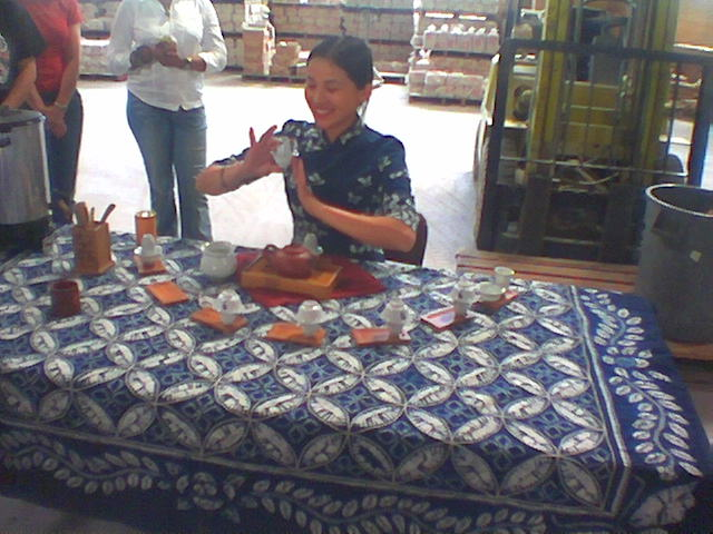 Chinese tea ceremony: turning the cups